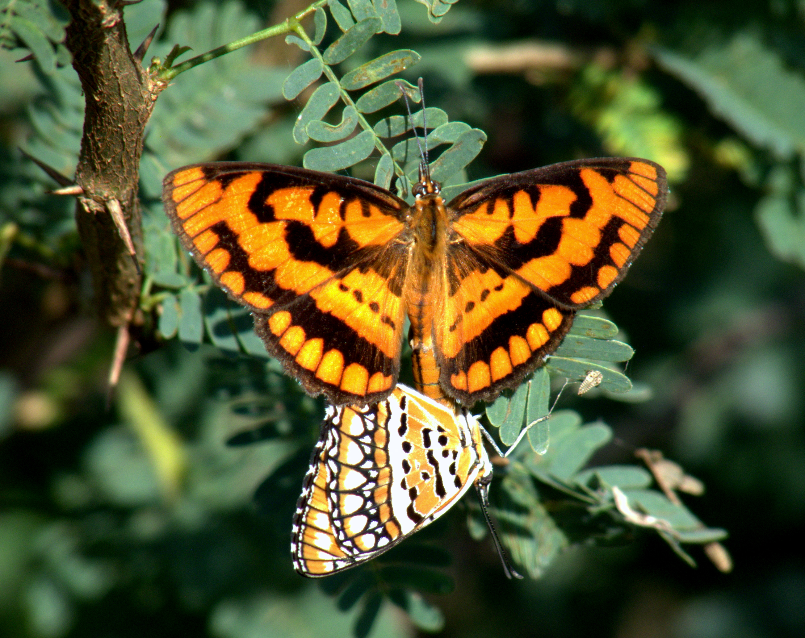 The Joker Butterfly, Byblia ilithyia seen at Singanallur Lake, Coimbatore, Tamil Nadu, India